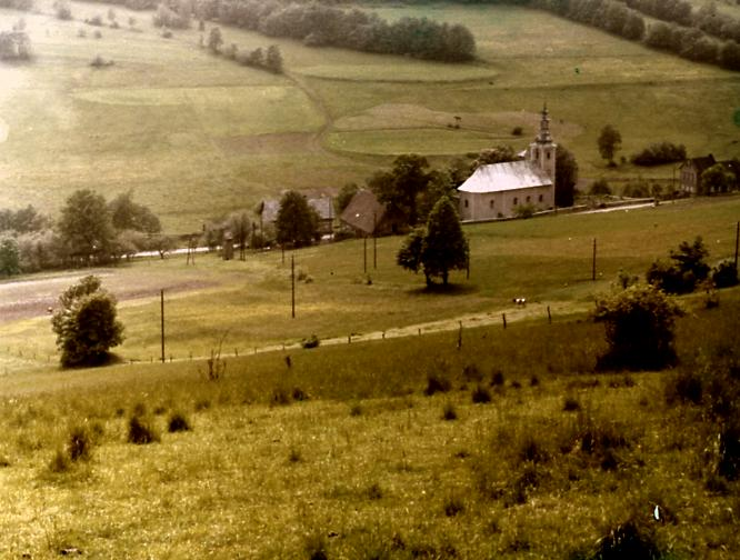 Back to see the old Church and the graves of our ancestors, Lower Silesia 1979 Author: Rainer Lehrig (User:lehrig) Date: 20006-04-12 Notes:Lower Silesian Voivodeship, Kłodzko County, Gmina Nowa Ruda, Krajanów